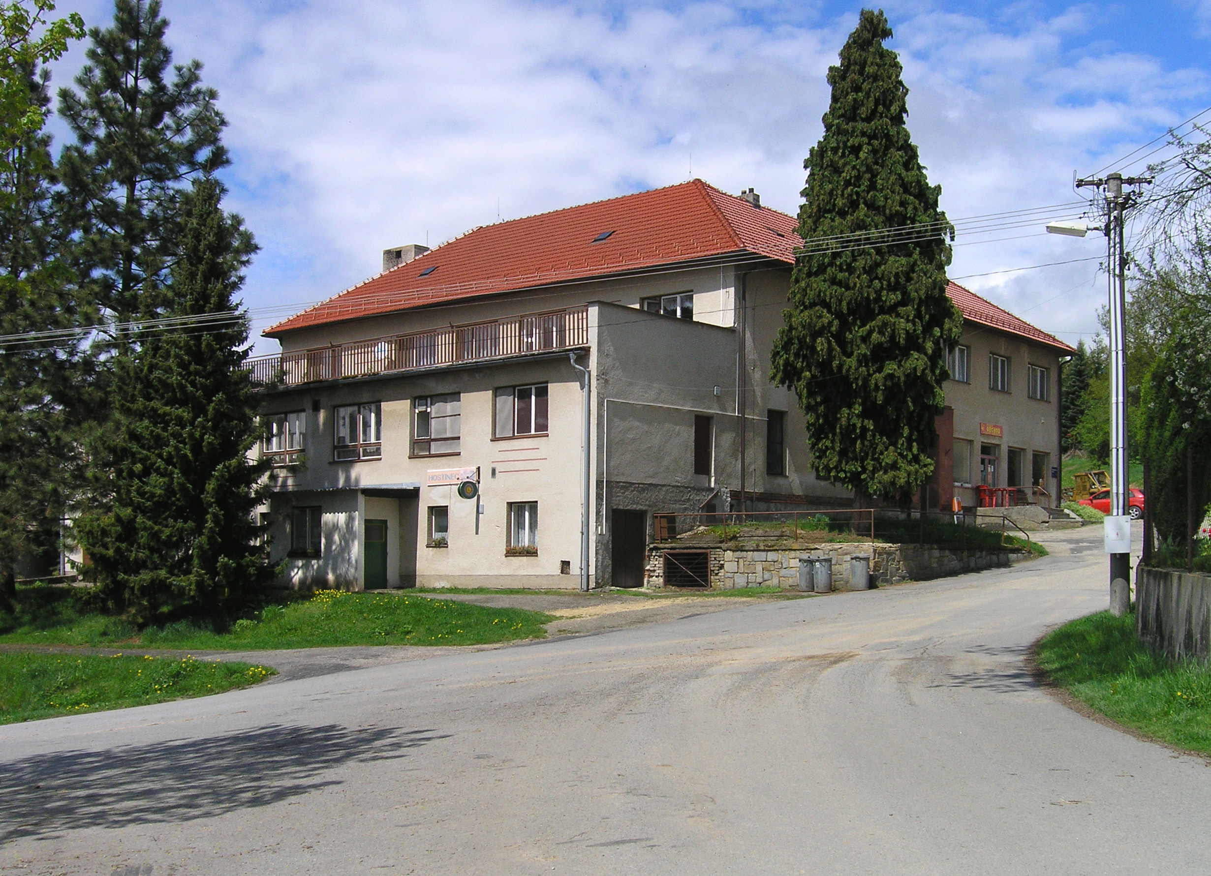 Restaurant, grocery, municipal office and kindergarten in Rodinov village, Czech Republic